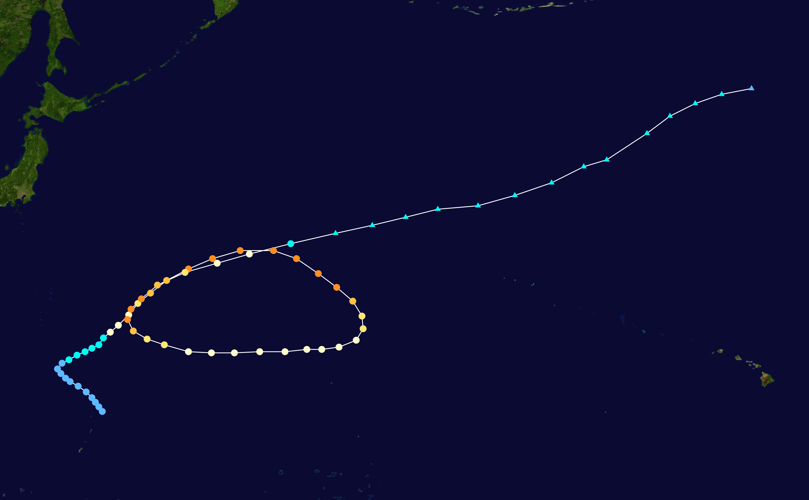 Typhoon Parma 2003 track. Uses the color scheme from the Saffir-Simpson Hurricane Scale.